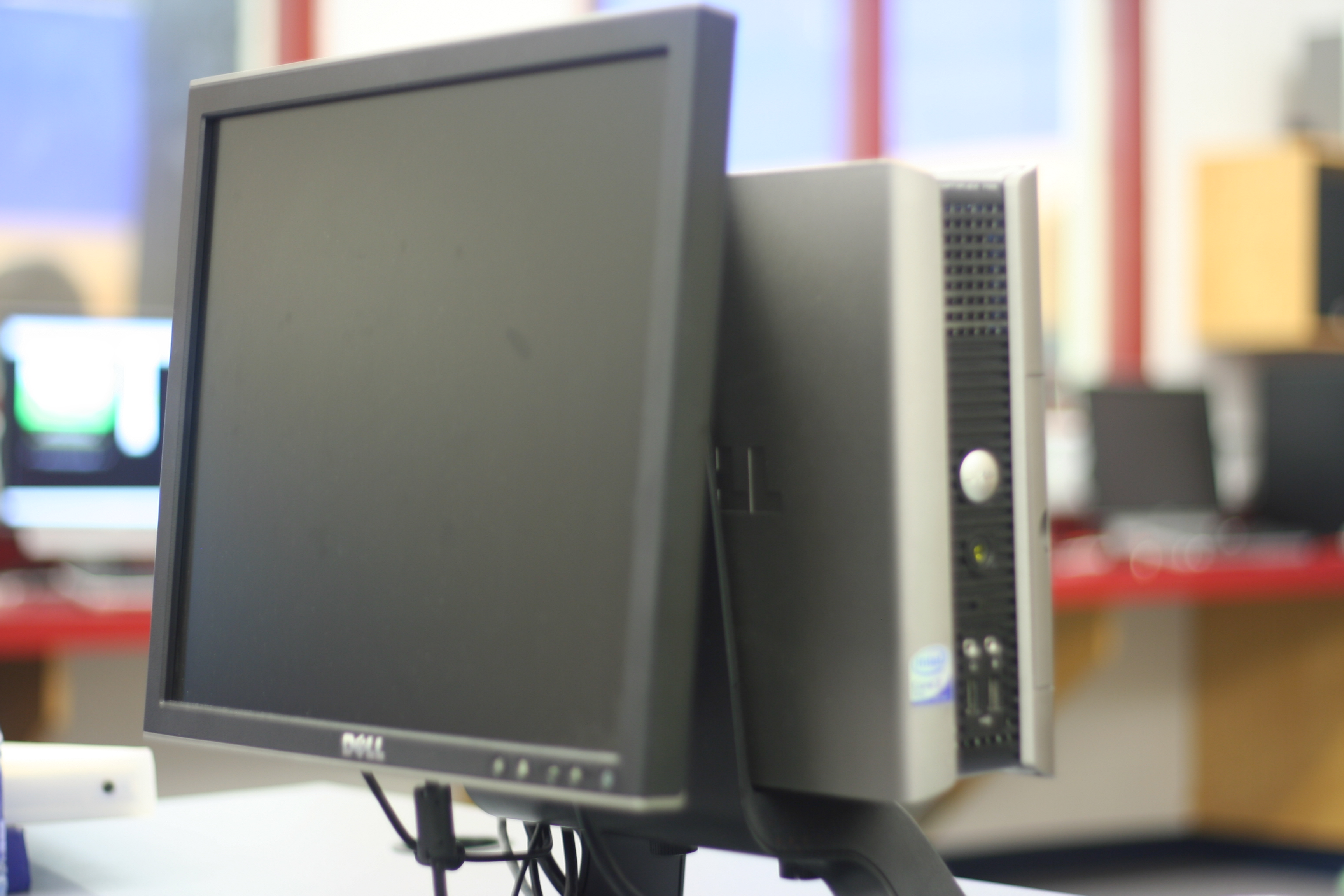 Dell OptiPlex computer